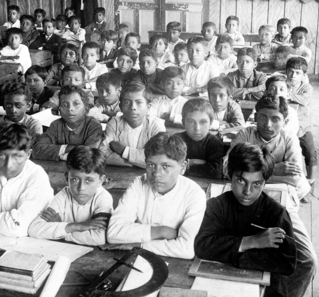 Public Domain. Suggested credit: Frères/Library of Congress via pingnews. Additional information from source: TITLE: Future citizens of equatorial America--a schoolroom full of boys at Guayaquil, Ecuador CALL NUMBER: STEREO FOREIGN GEOG FILE - Ecuador [P&P] REPRODUCTION NUMBER: LC-USZ62-103018 (b&w film copy neg. of half stereo). No known restrictions on publication. MEDIUM: 1 photographic print on stereo card : stereograph. CREATED/PUBLISHED: New York : Underwood & Underwood, publishers, c1907. CREATOR: Underwood & Underwood. NOTES: H89034 U.S. Copyright Office. No. (8)-9183. U-91907. SUBJECTS: Classrooms--Ecuador--Guayaquil--1900-1910. Children--Education--Ecuador--Guayaquil--1900-1910. FORMAT: Stereographs 1900-1910. Photographic prints 1900-1910. DIGITAL ID: (b&w film copy neg. of half stereo) cph 3c03018 CARD #: 91728101